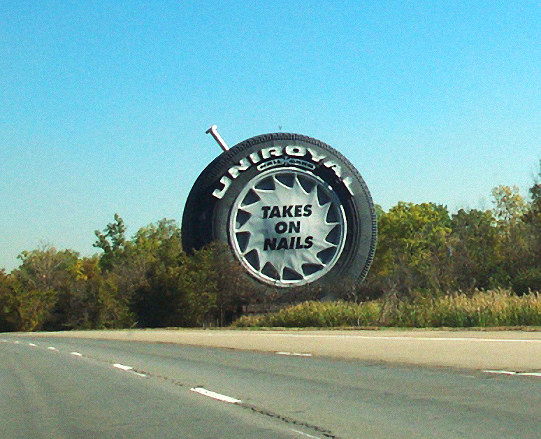 The big Uniroyal tire just outside of Detroit on I-94 East.